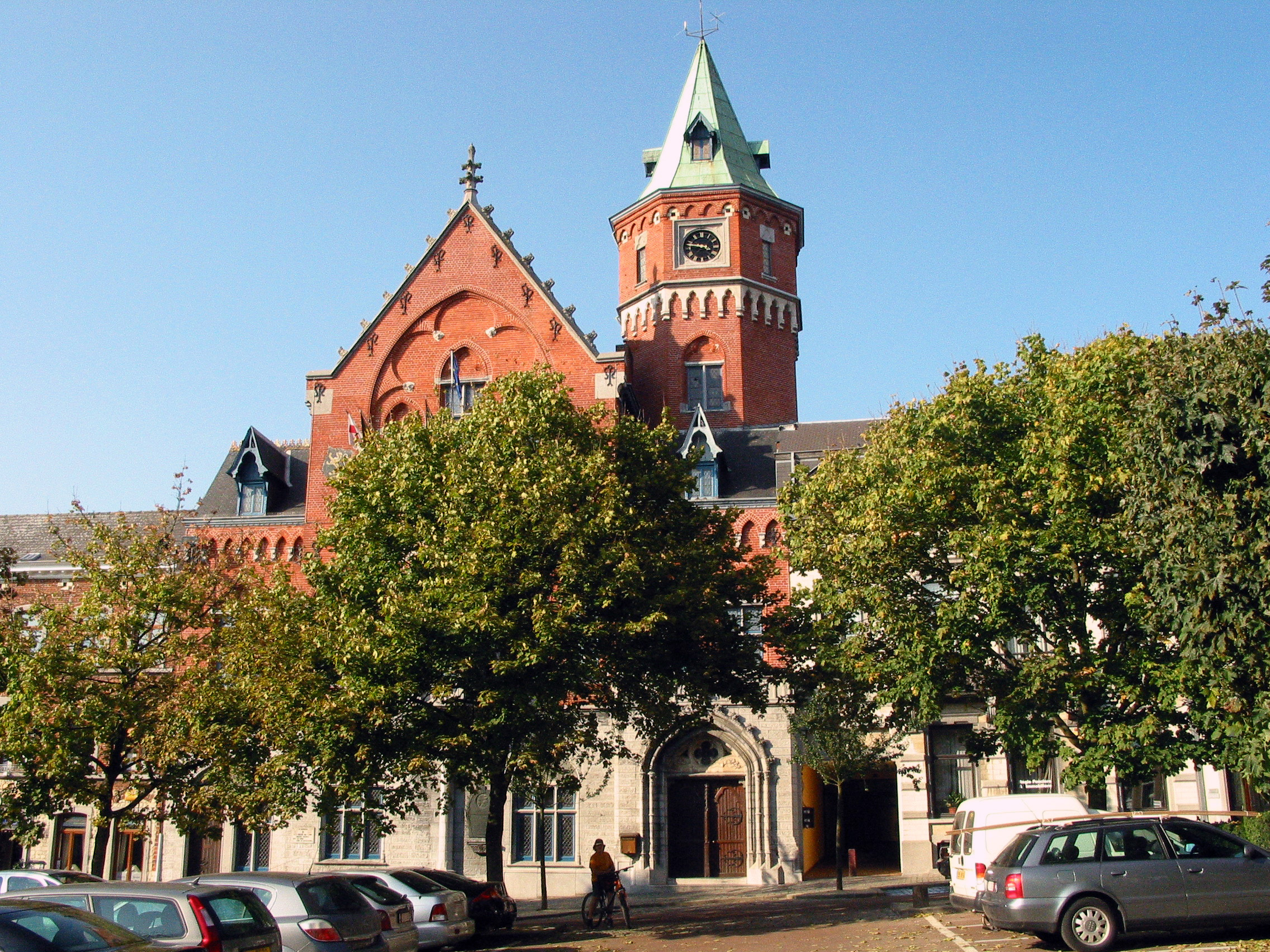 Braine-l'Alleud (Belgium), the town hall.